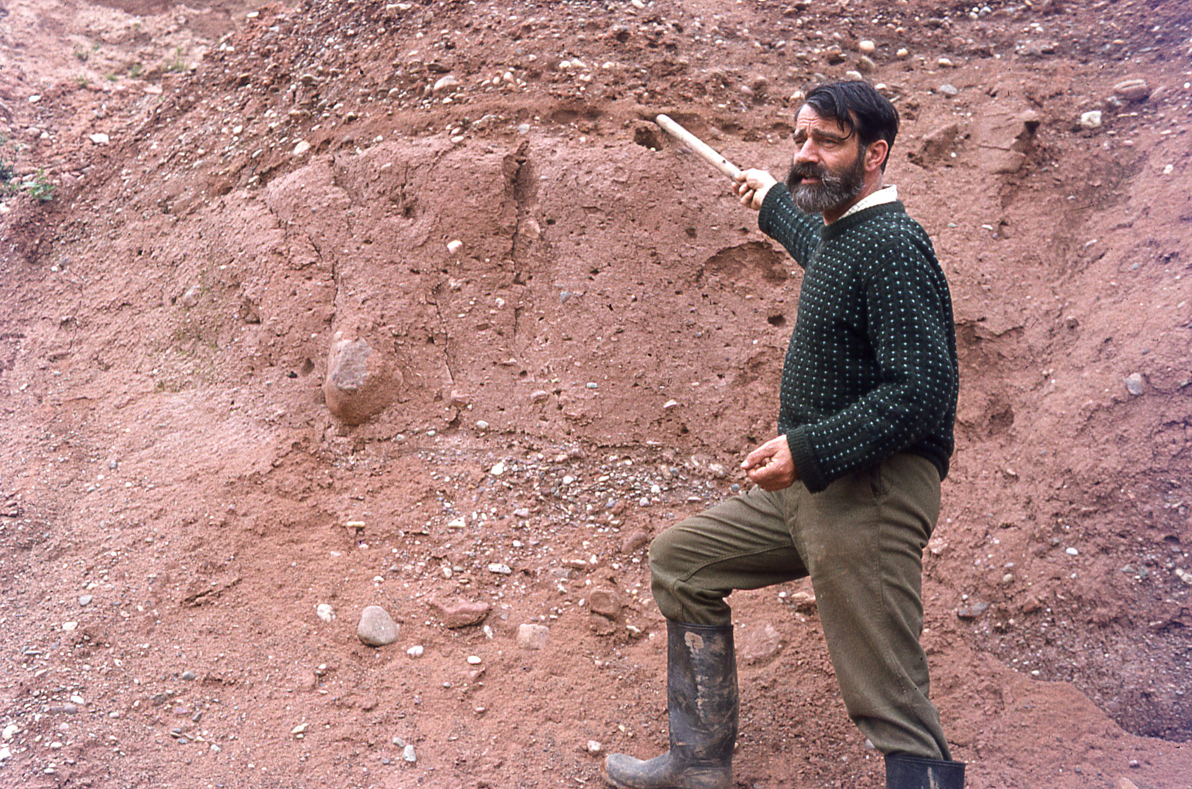 Russell Coope describing Devensian till and outwash gravel at Eardington, near Bridgnorth, Shropshire.